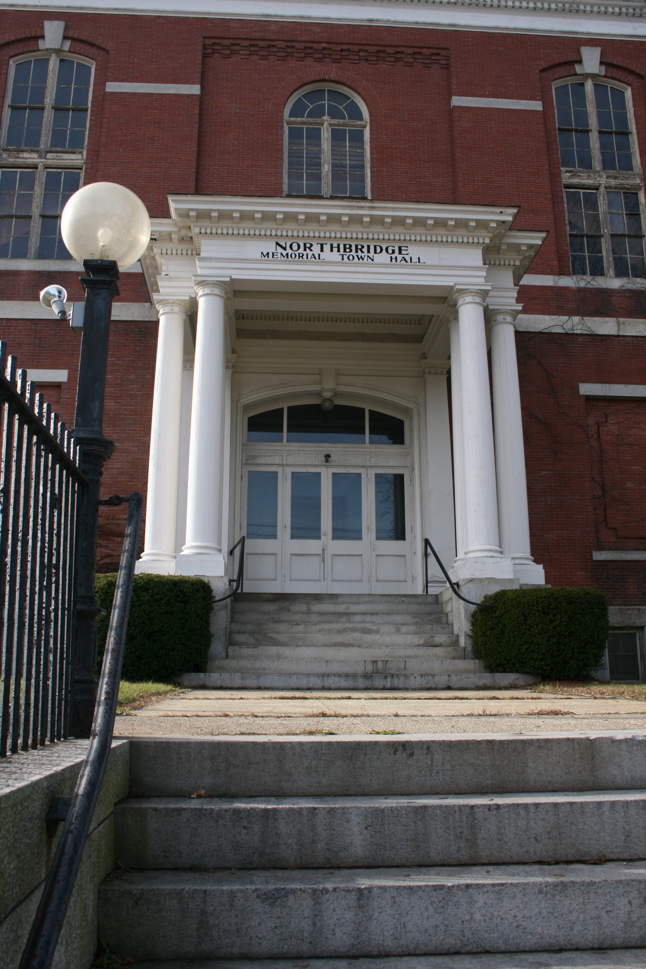 Northbridge Memorial Town Hall